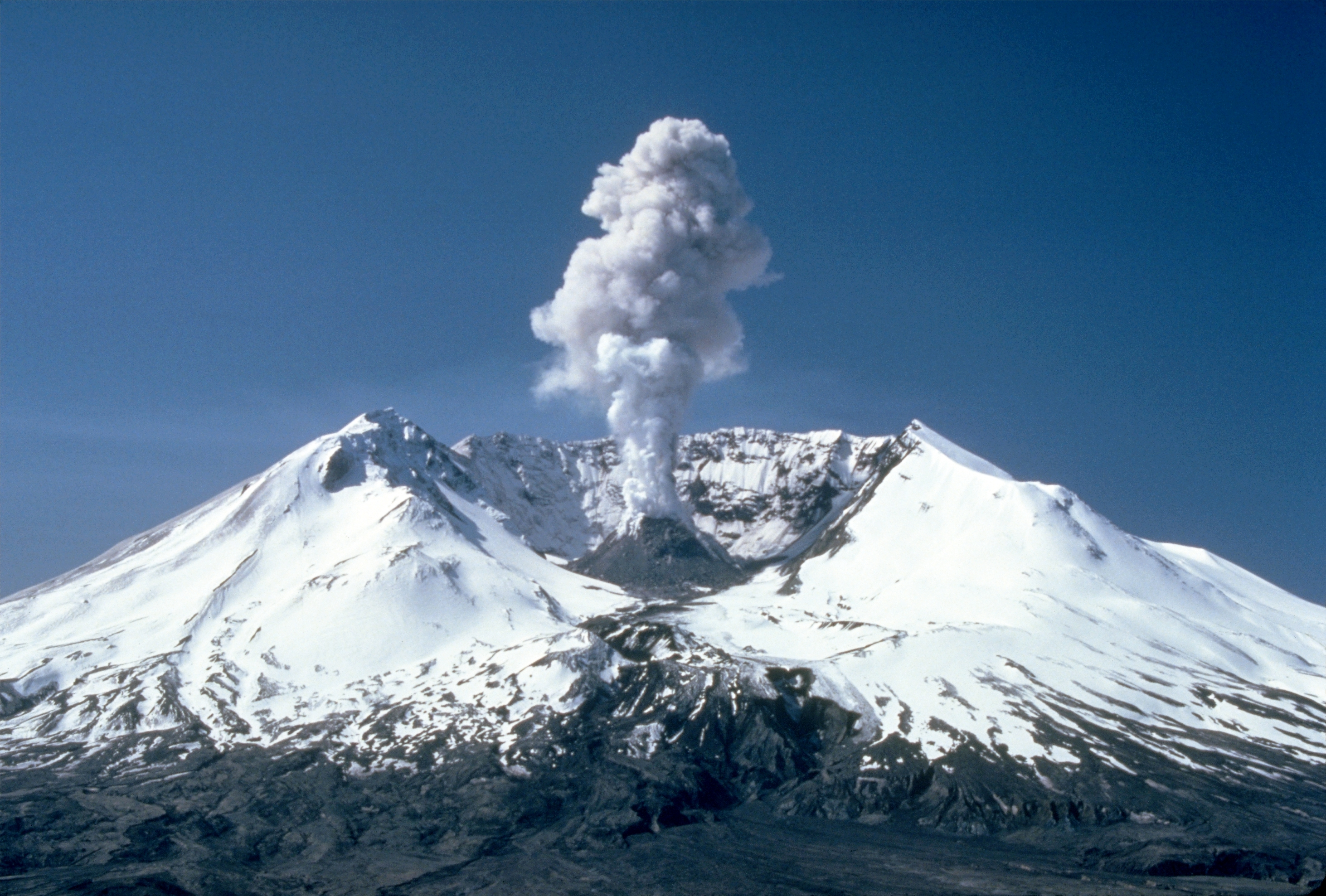 Plumes of steam, gas, and ash often occurred at Mount St. Helens in the early 1980s. On clear days they could be seen from Portland, Oregon, 50 mi (80 km) to the south. The plume photographed here rose nearly 3,000 ft (910 m) above the volcano's rim. The view is from Harrys Ridge, 5 mi (8 km) north of the mountain.